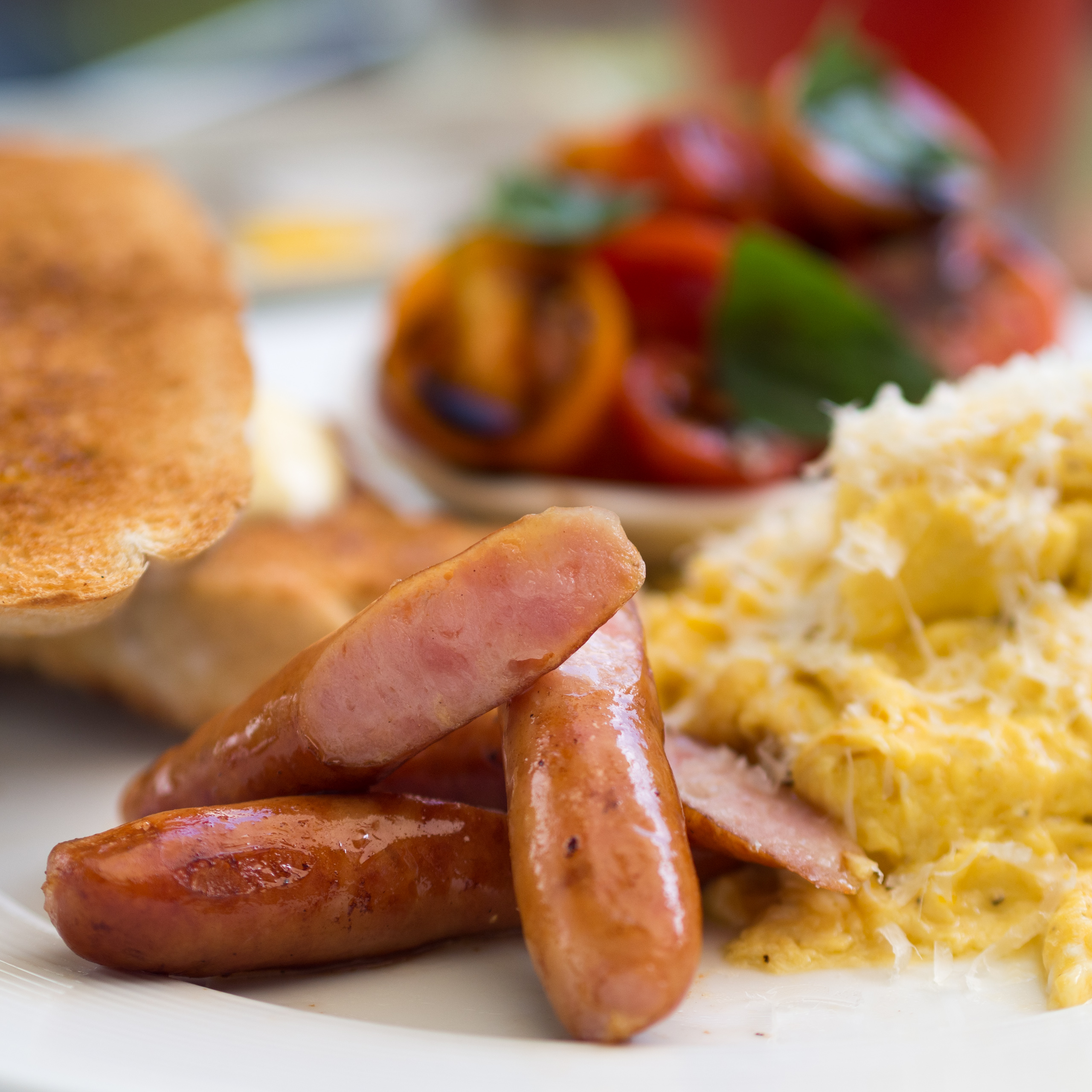 Japanese "arabiki" sausages with scrambled eggs and grated parmesan cheese. Served with toasted baguette, and a tomato-balsamic vinegar salad. The Larder Cafe & Bar